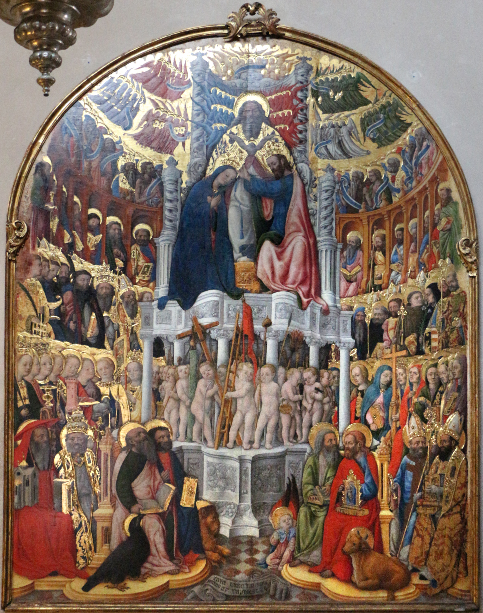 San Pantaleone (Venice)